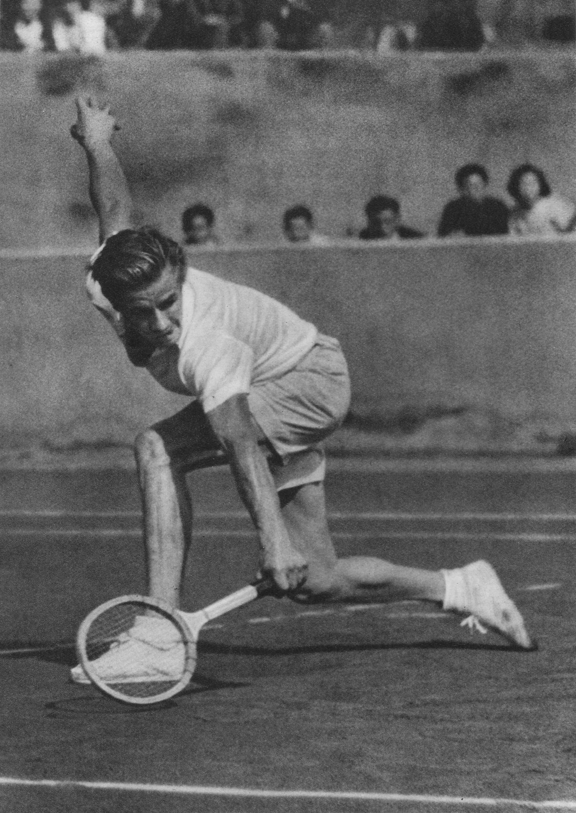 Art Larsen in Japan, 1951.